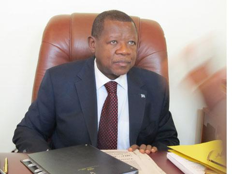 Lambert Mende, minister of communications of the Democratic Republic of the Congo.